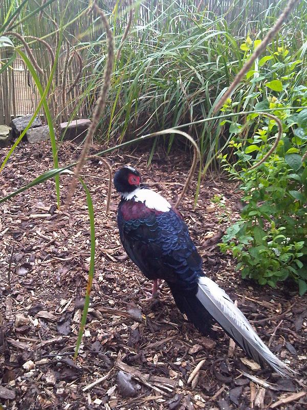 Male Swinhoe's Pheasant (Lophura swinhoii) in London.